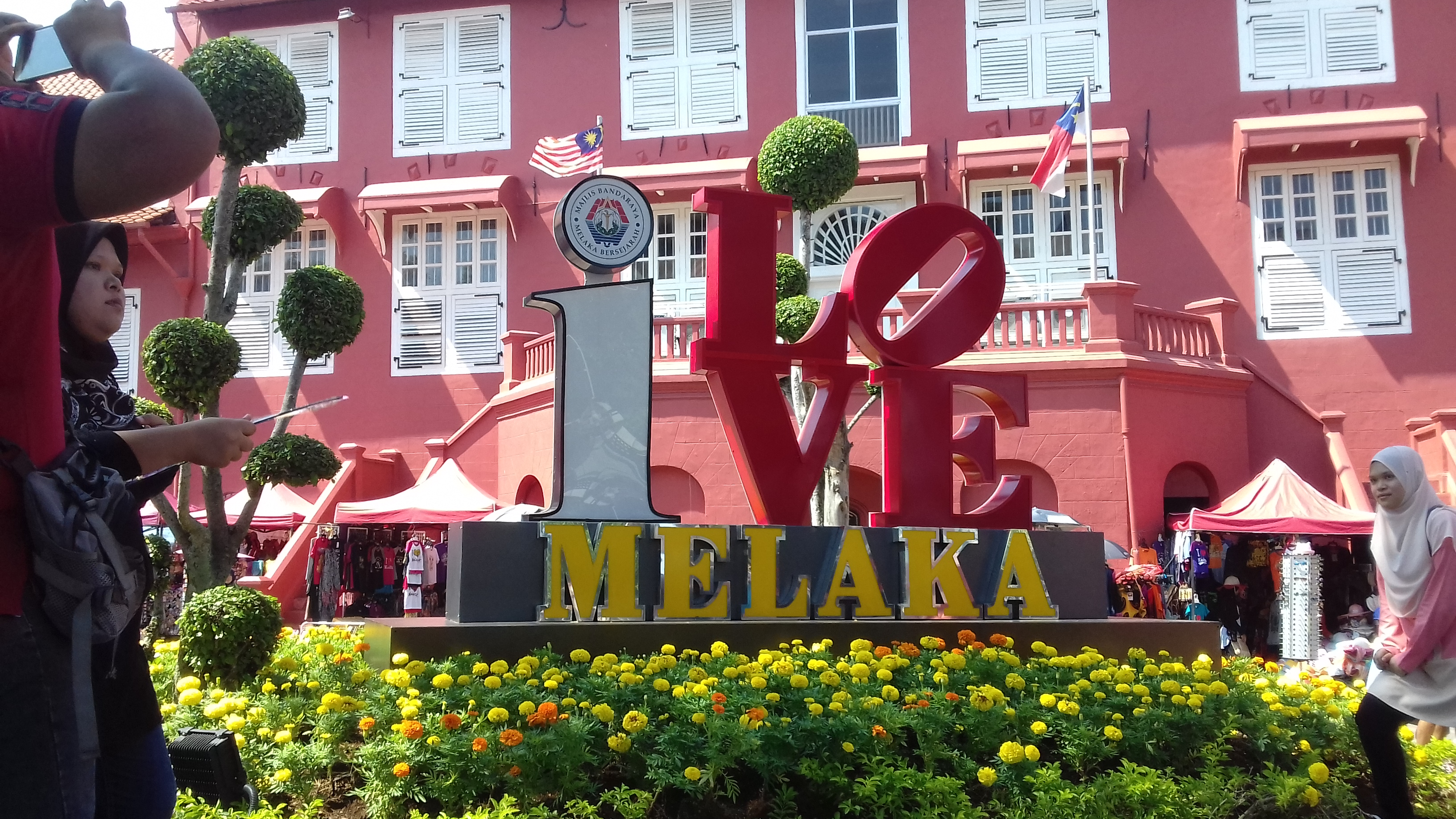 I Love Melaka letters.